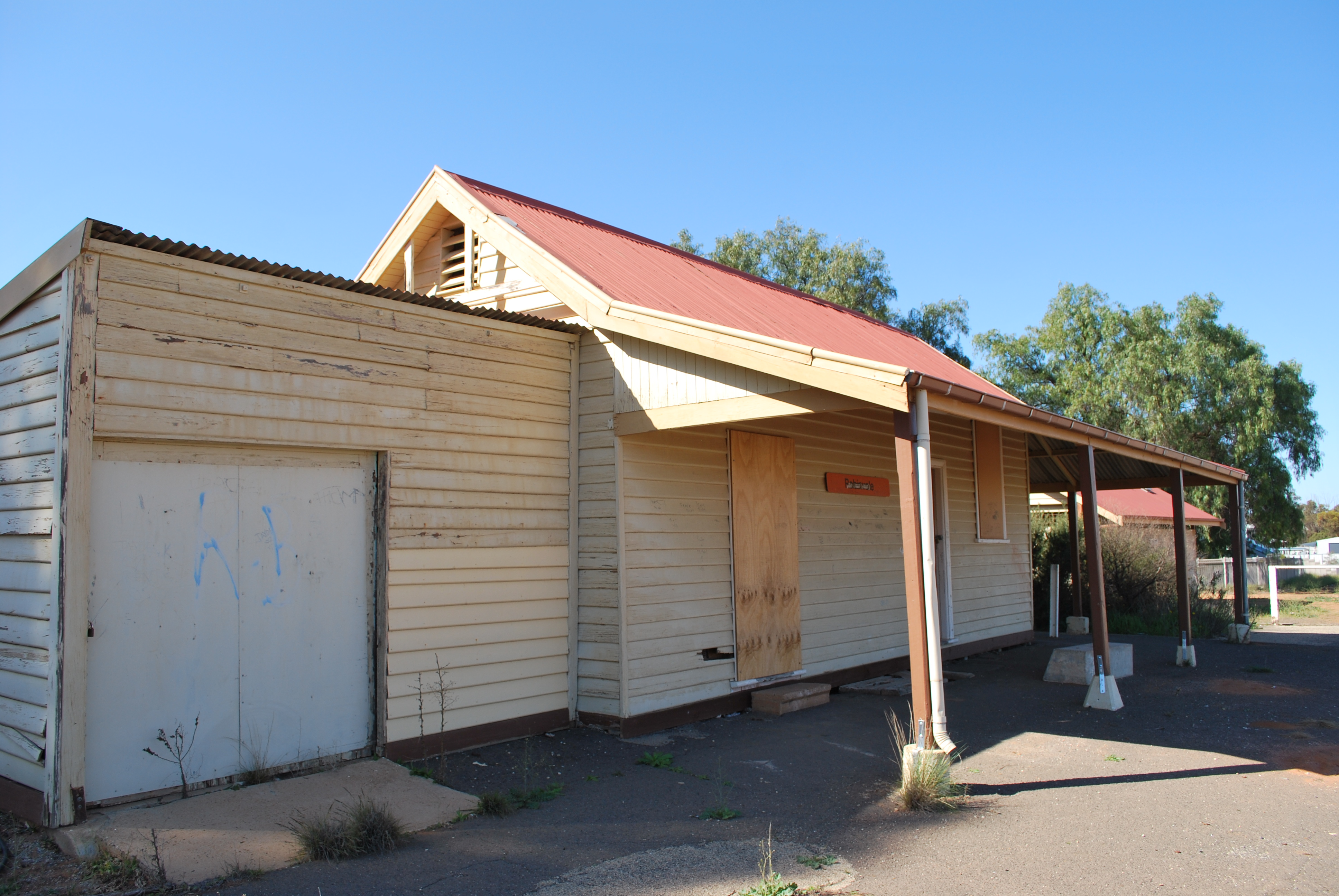 Train station at Robinvale, Victoria